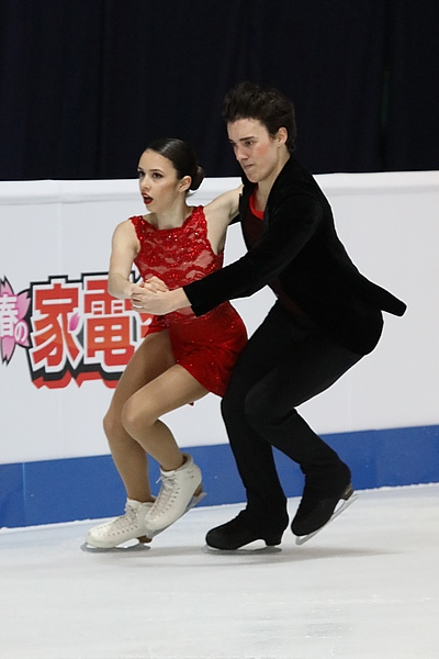 Caroline Green and Gordon Green at the 2019 Junior World Championships - RD